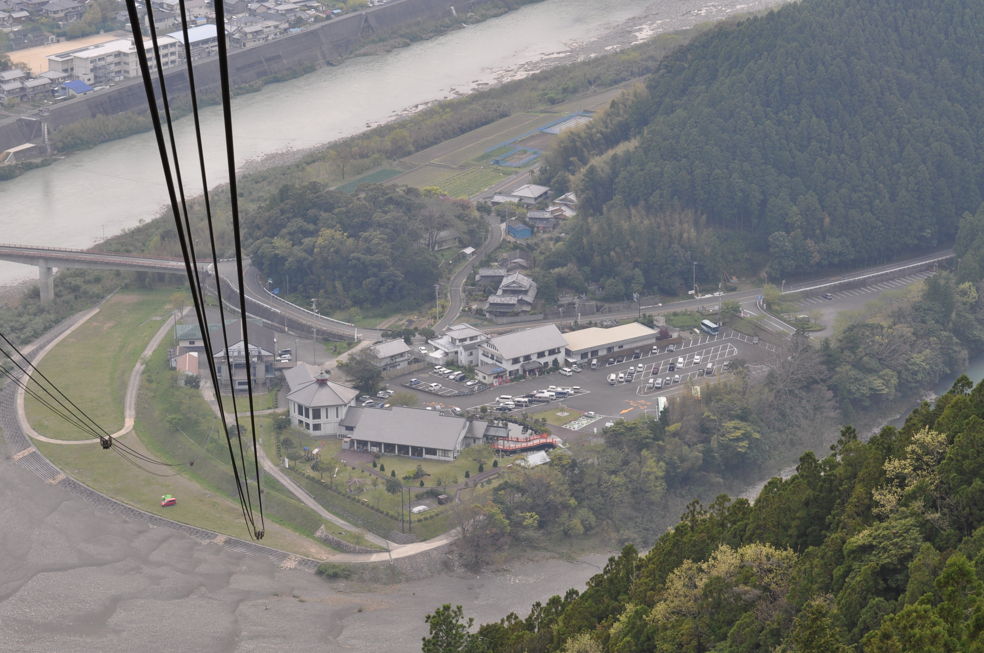 View down to Washinosato road station「道の駅 鷲の里」from Tairyuji Ropeway